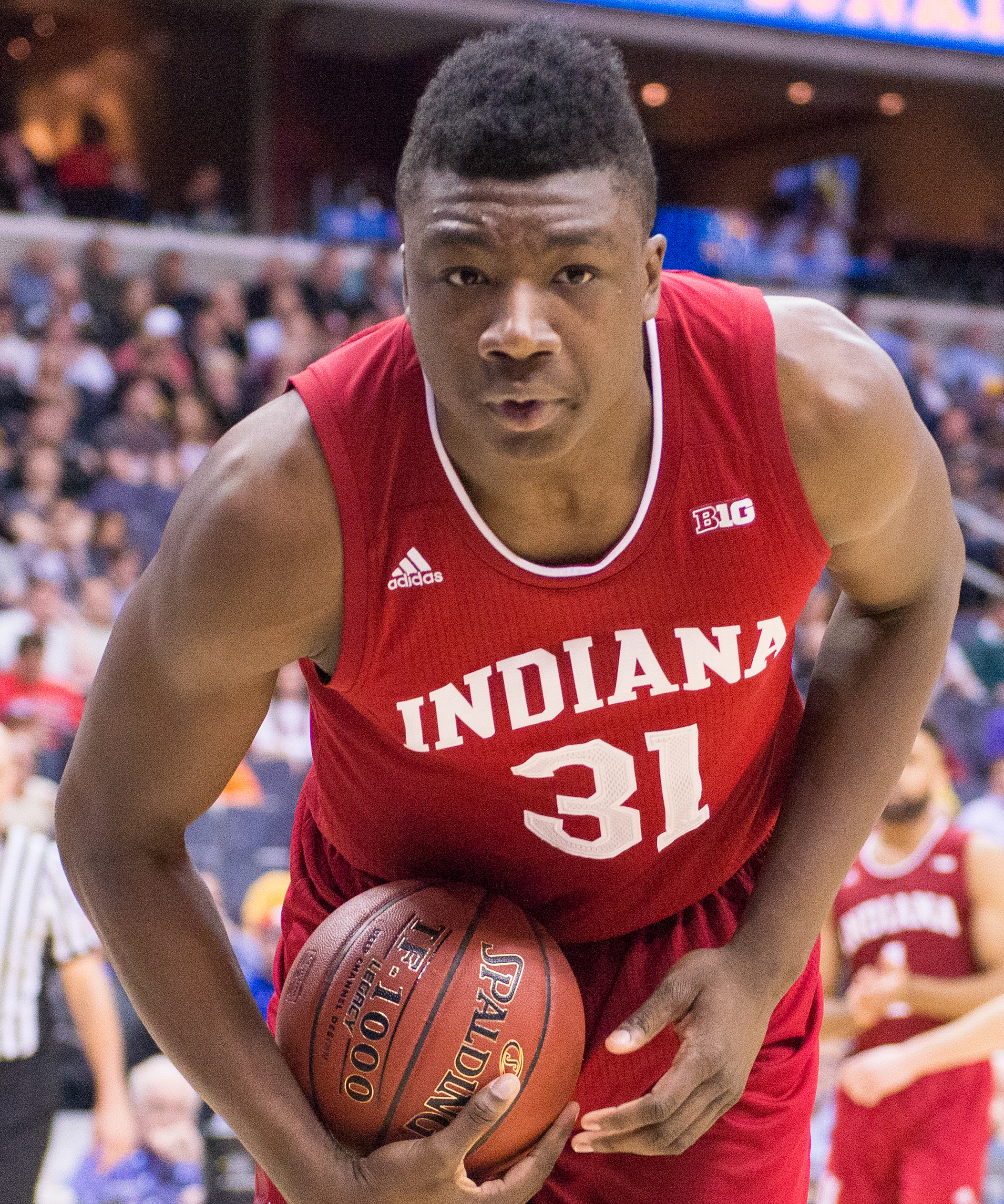 Indiana's Thomas Bryant